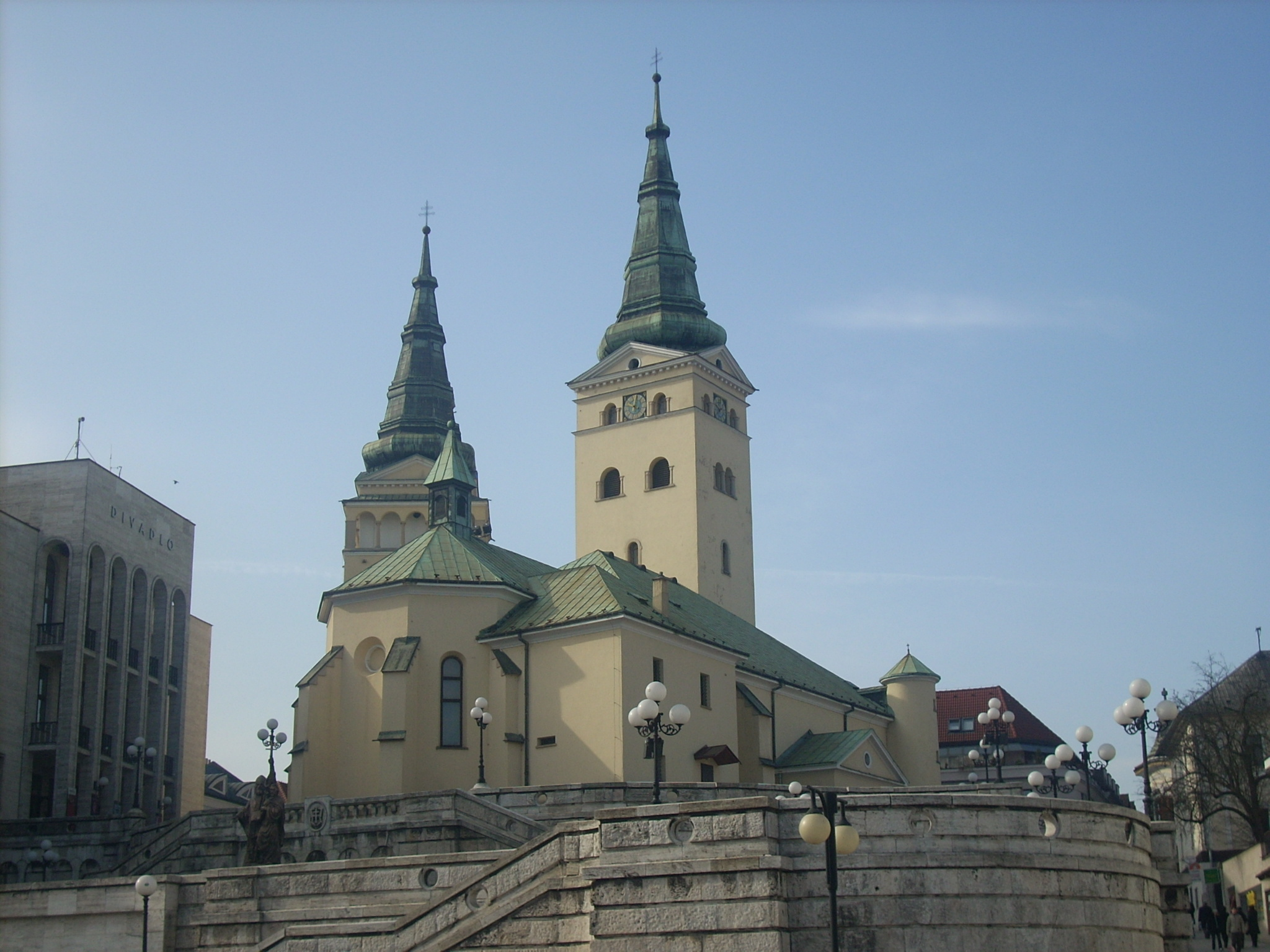 Church of The Holy Trinity This medium shows the protected monument with the number 511-1393/1 in the Slovak Republic.